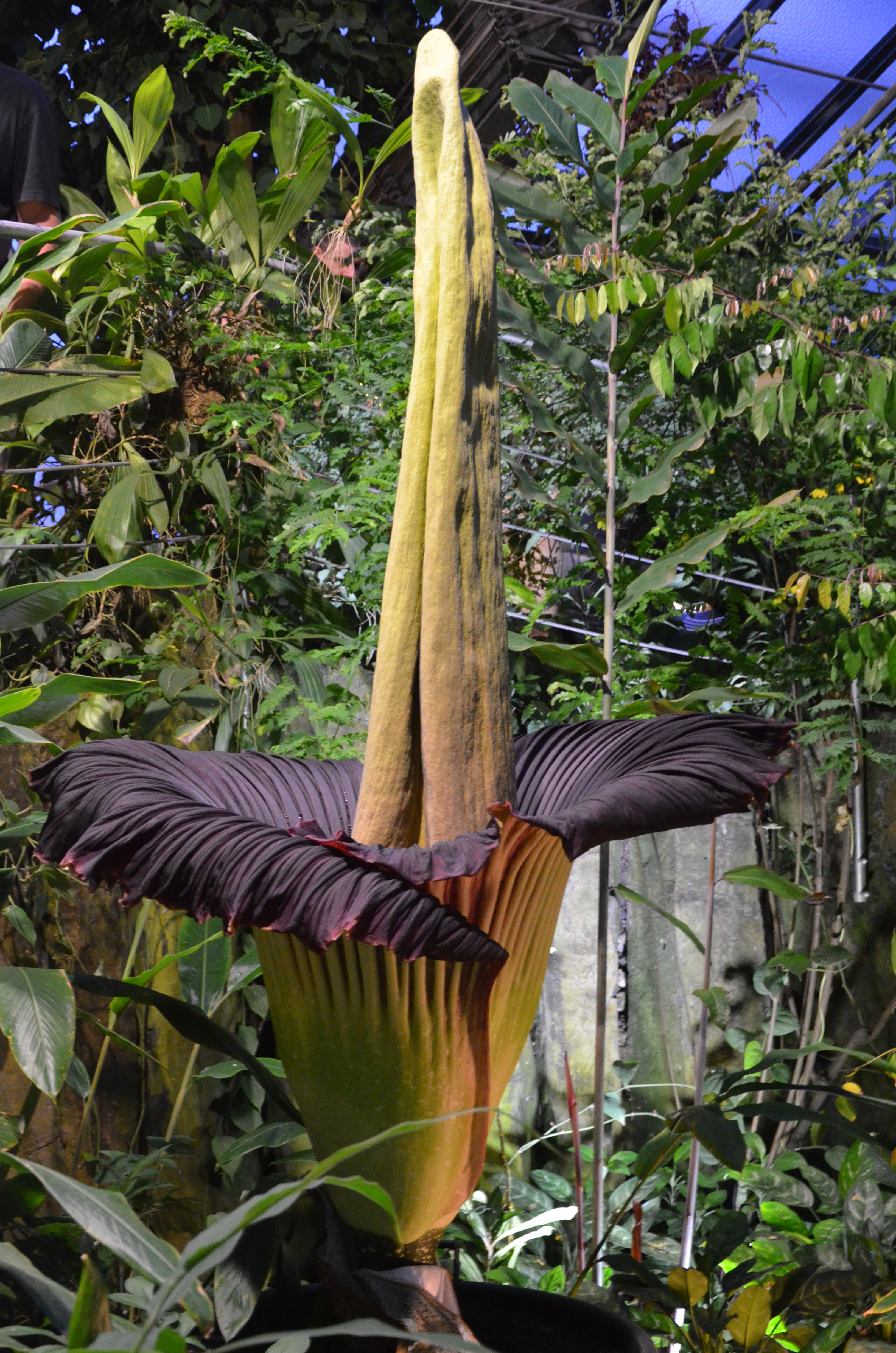 Amorphophallus titanum blooming again at ÖBG (Bayreuth University) after just 10 months.